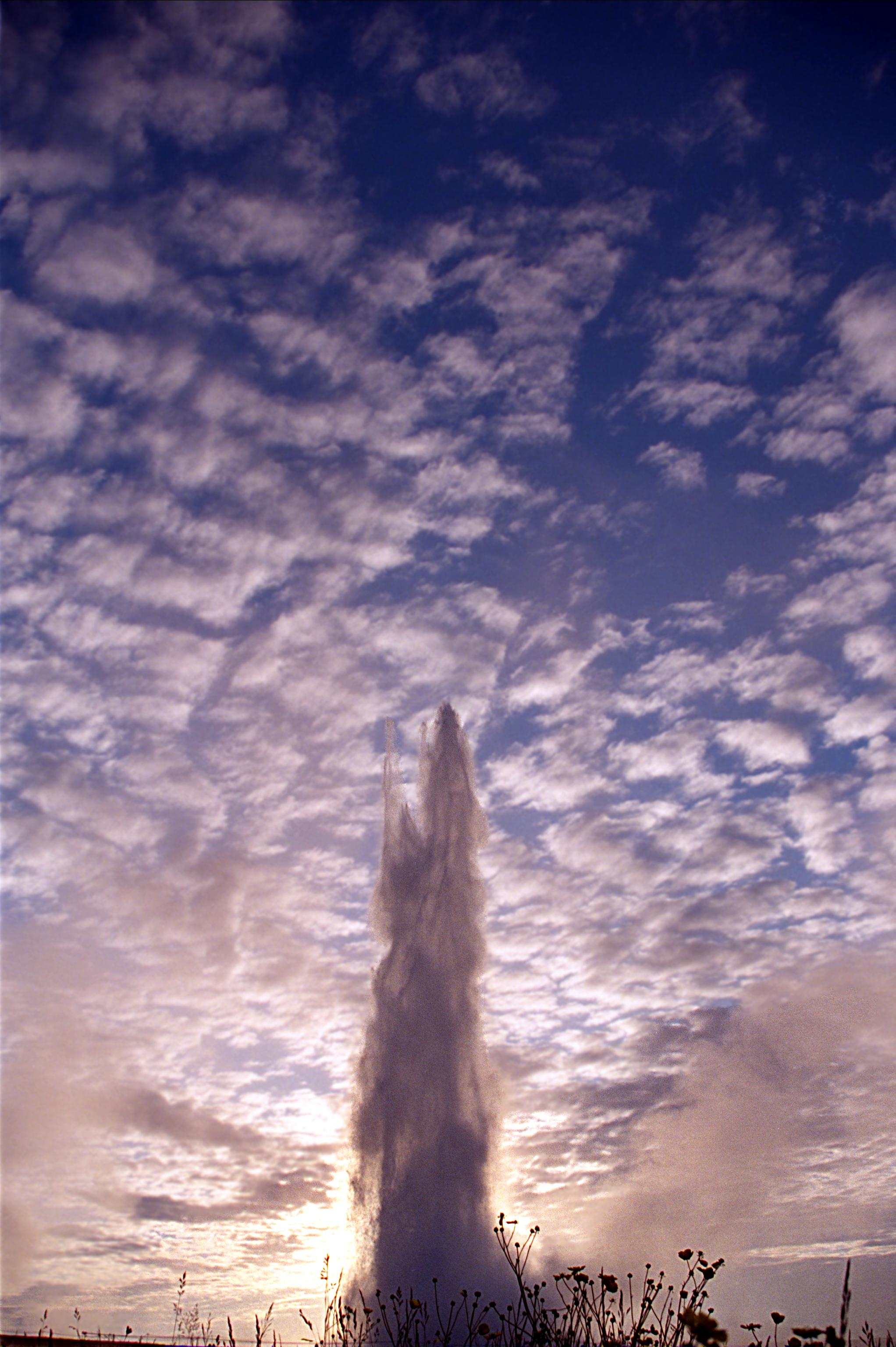 Eruption of Strokkur from a distant